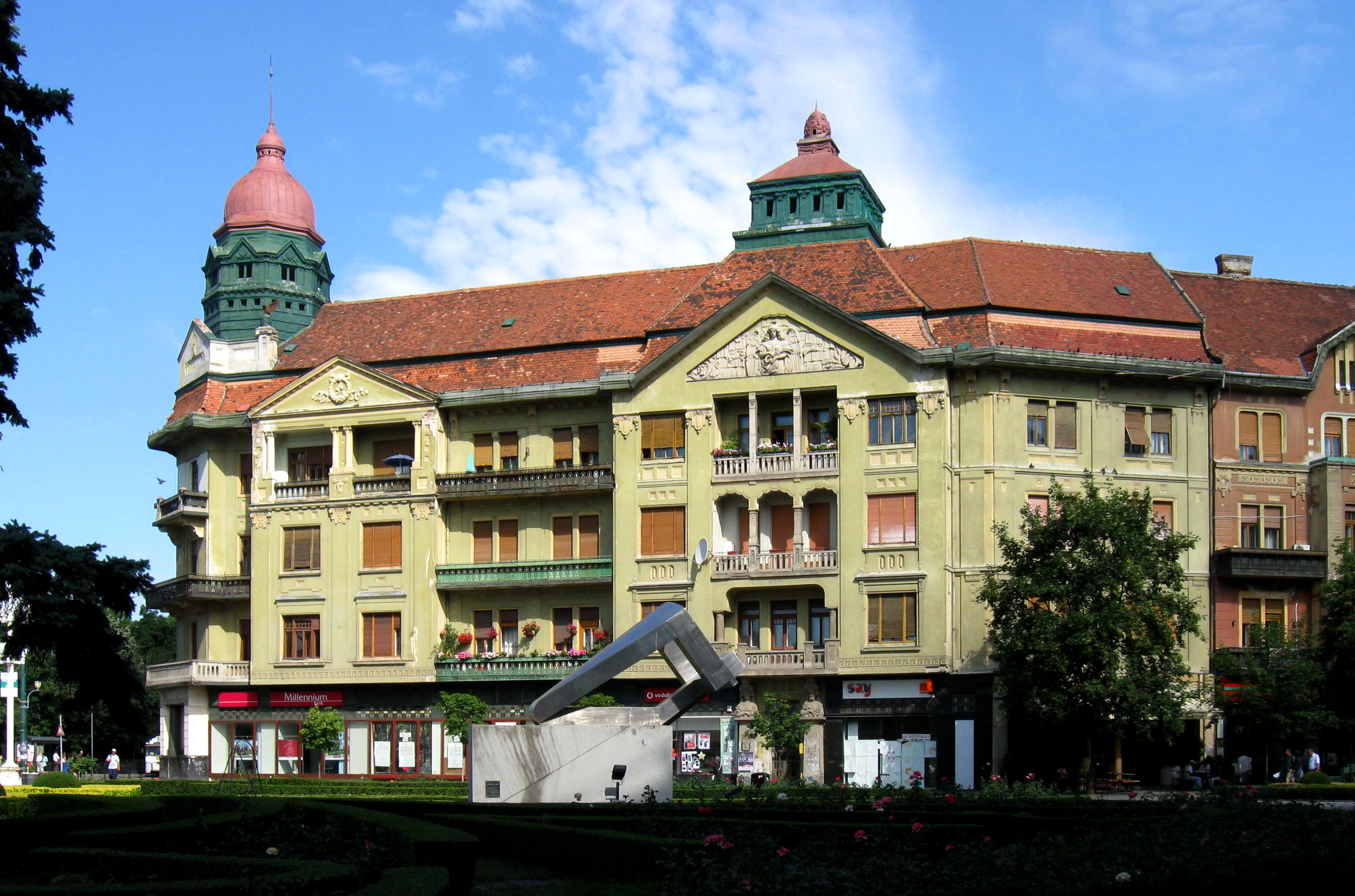 Széchényi Palace, Timisoara, Romania. Built 1911-1913, architect Székely László (1877-1934)